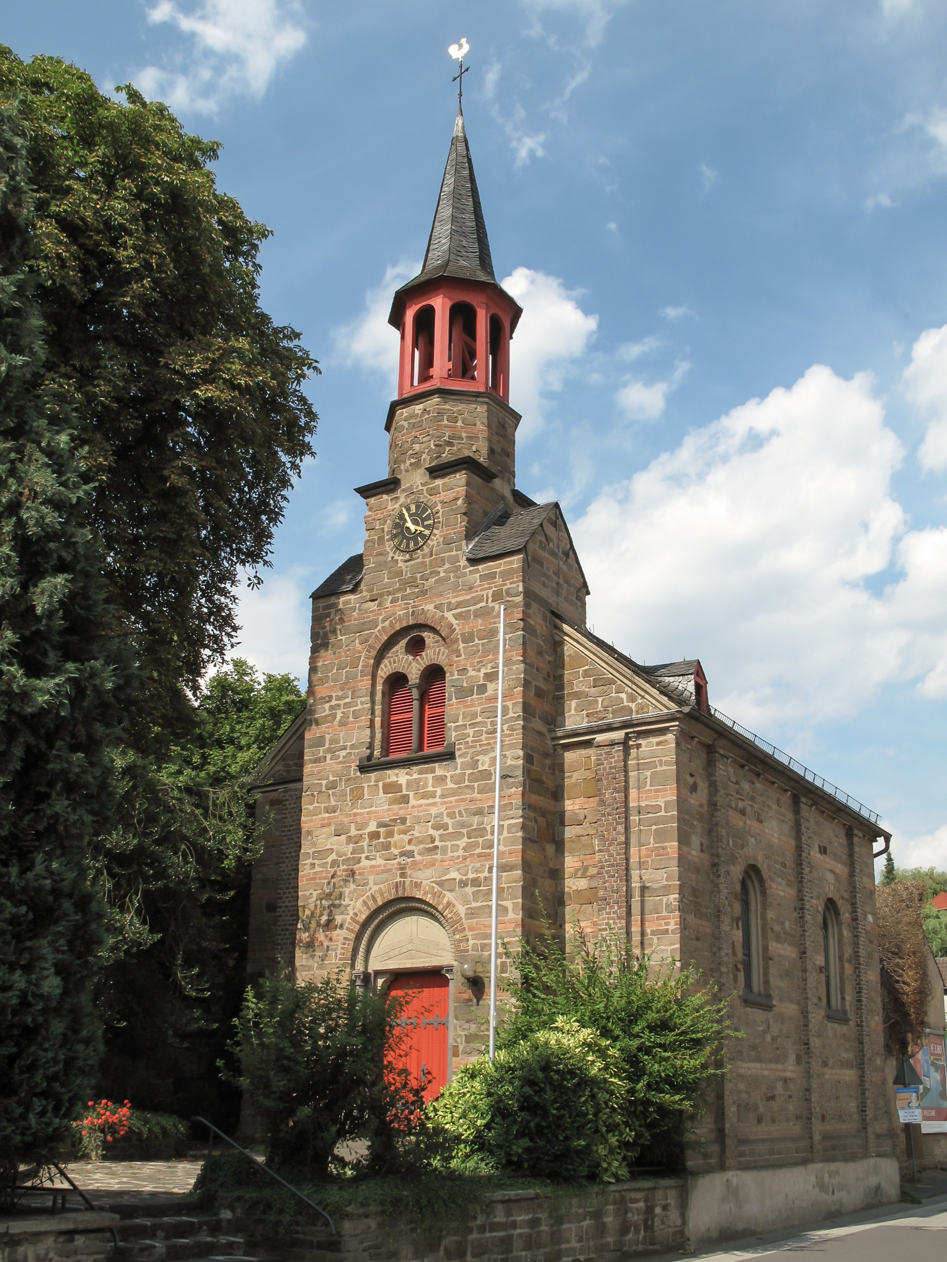 Pech, chapel